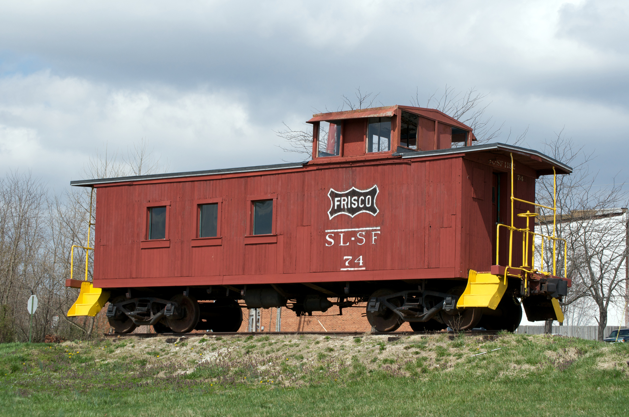 An old wooden Frisco caboose on display at the Earl Shipley Park in Willow Springs, MO.